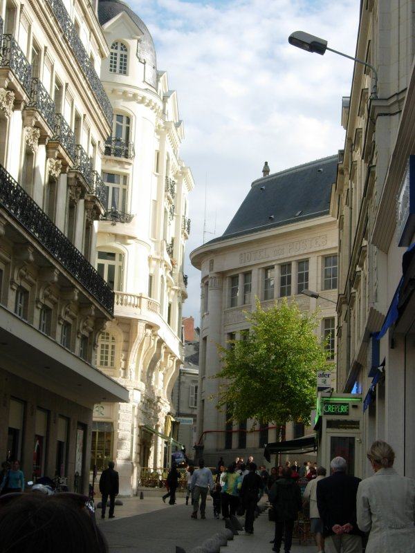 Saint-Denis street in Angers, Maine-et-Loire, France. The central post office building is visible in the bakground.